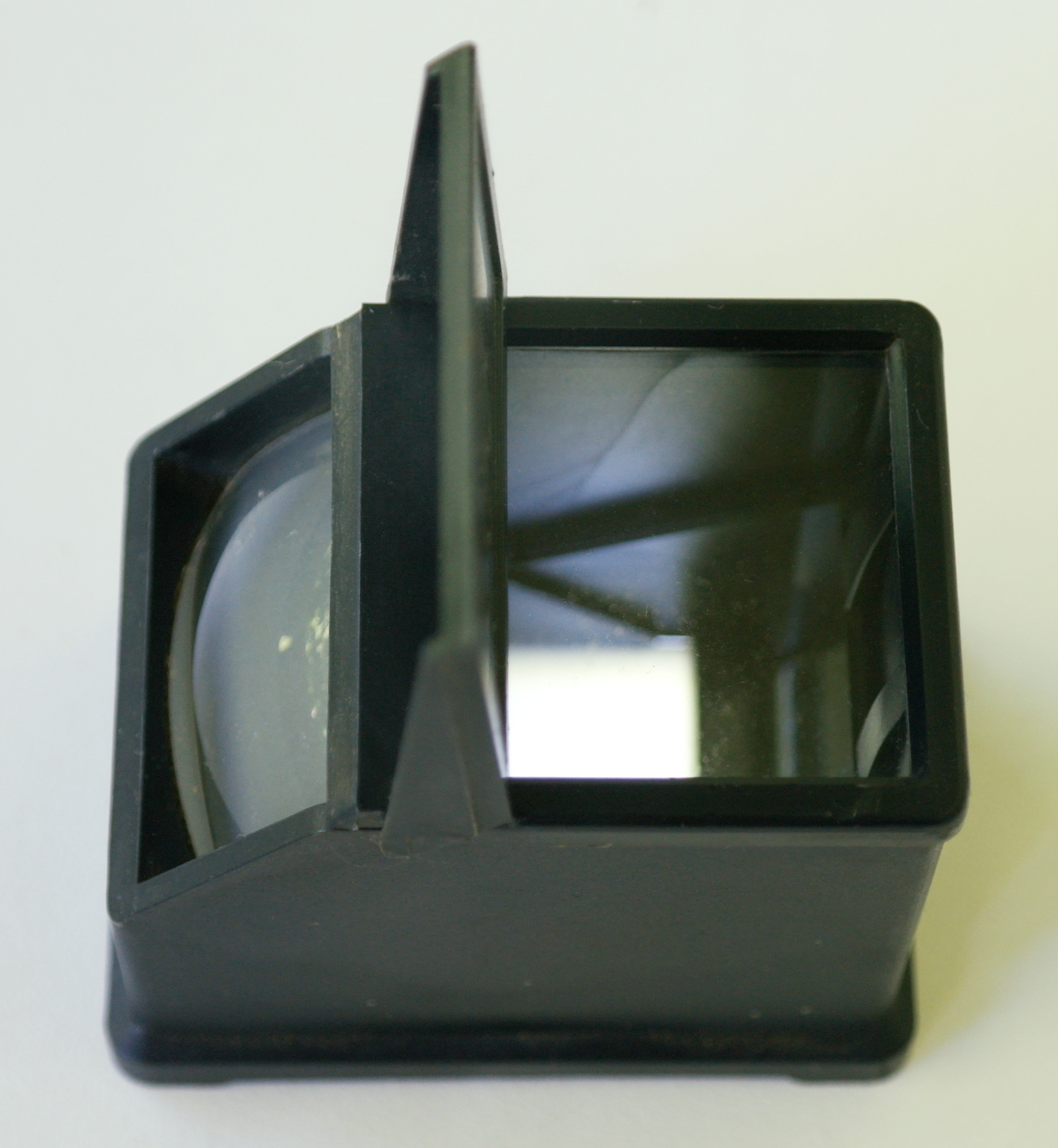 Fokuscope by soviet 'Ekran' plant. Optical device for enlarger focusing.